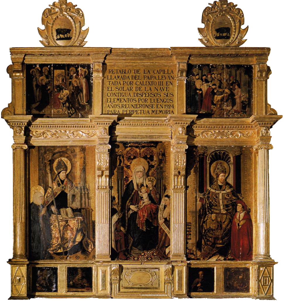 JACOMART, Jaume Baço Retable of St Anne Panel Convent, Játiva